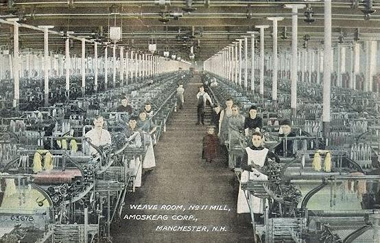 Weave Room, No. 11 Mill, Amoskeag Manufacturing Company, Manchester, NH; from a c. 1910 postcard.